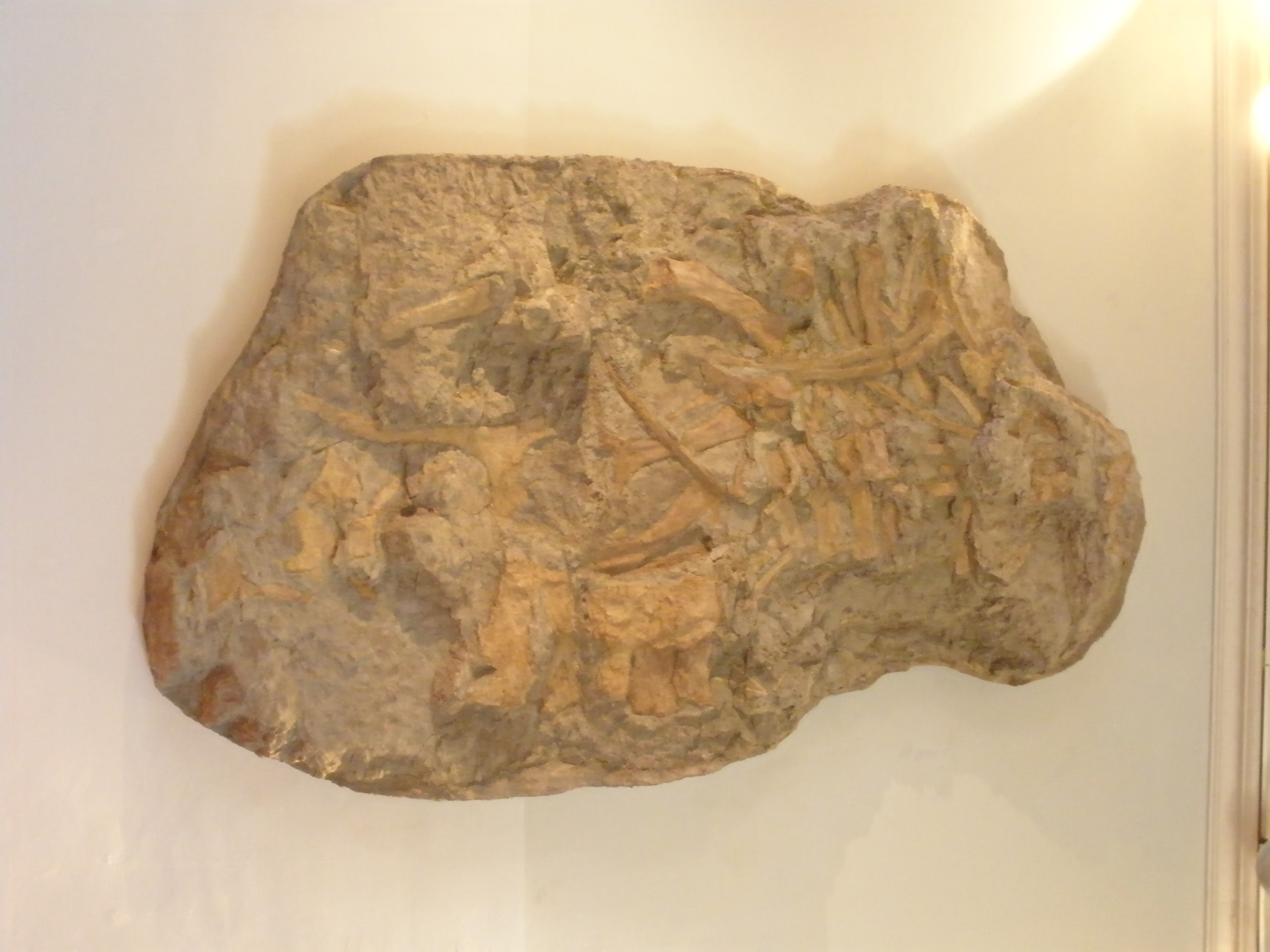 fossil Rhabdodon priscus